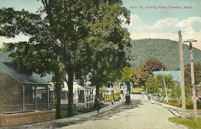 Main Street, looking east, Chester, Massachusetts